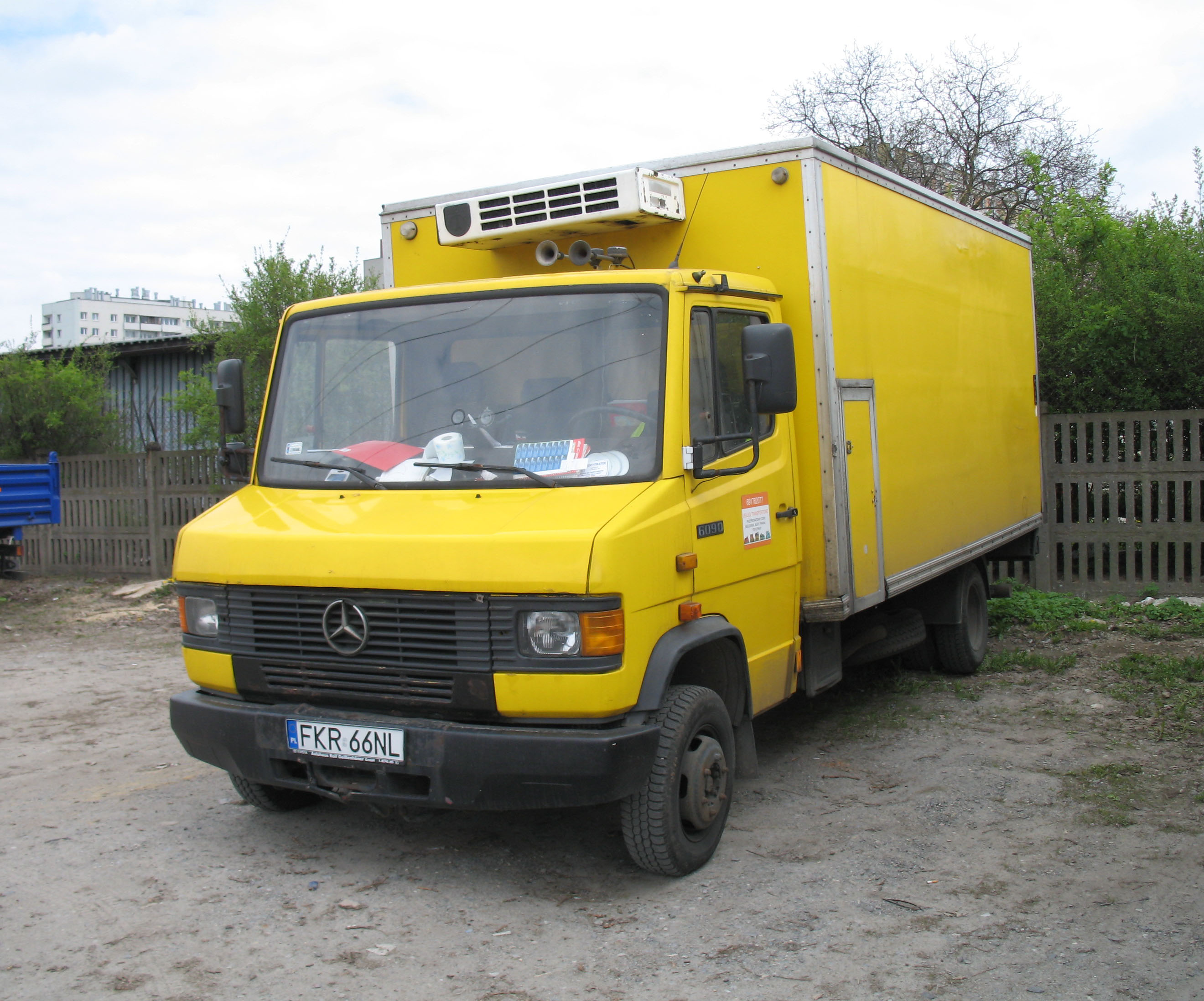 Mercedes-Benz 609D truck in Kraków, Poland.